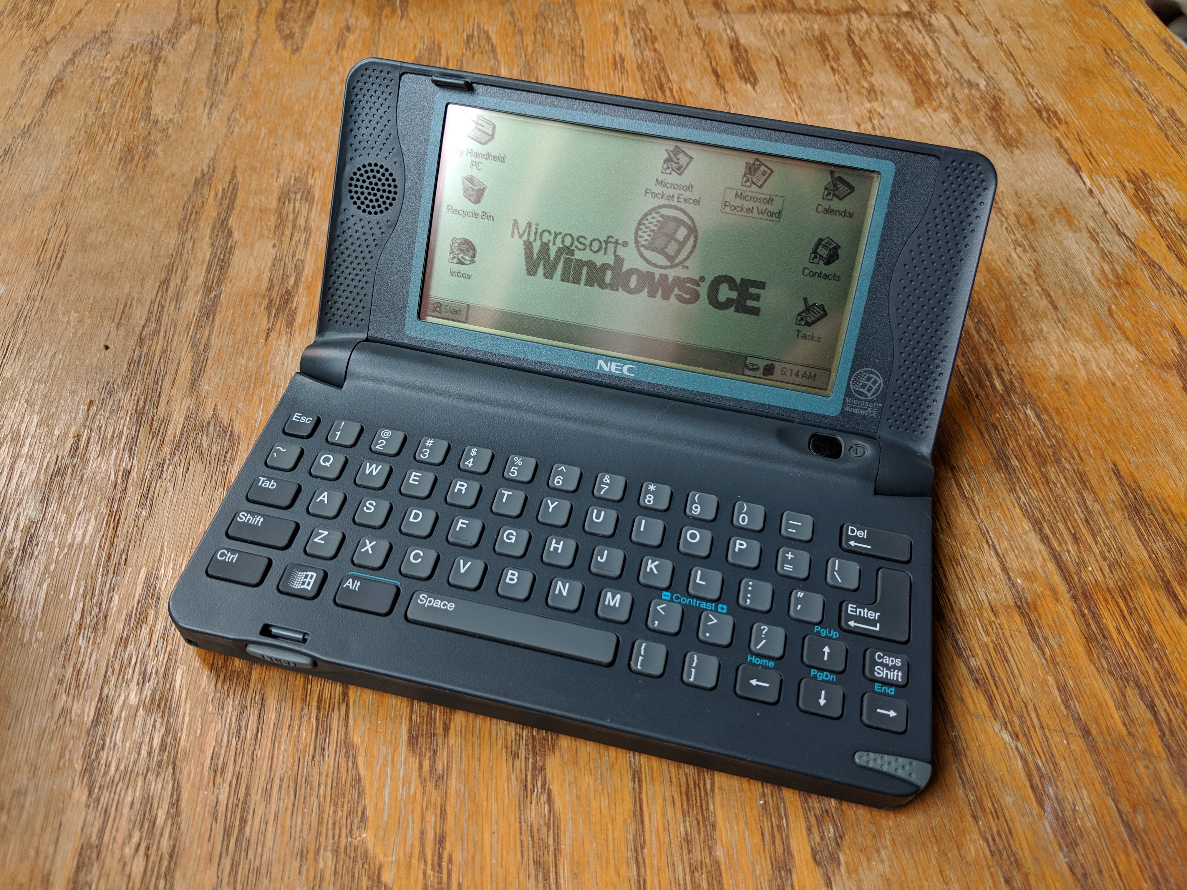 NEC MobilePro 400 personal digital assistant, running Windows CE 1.0